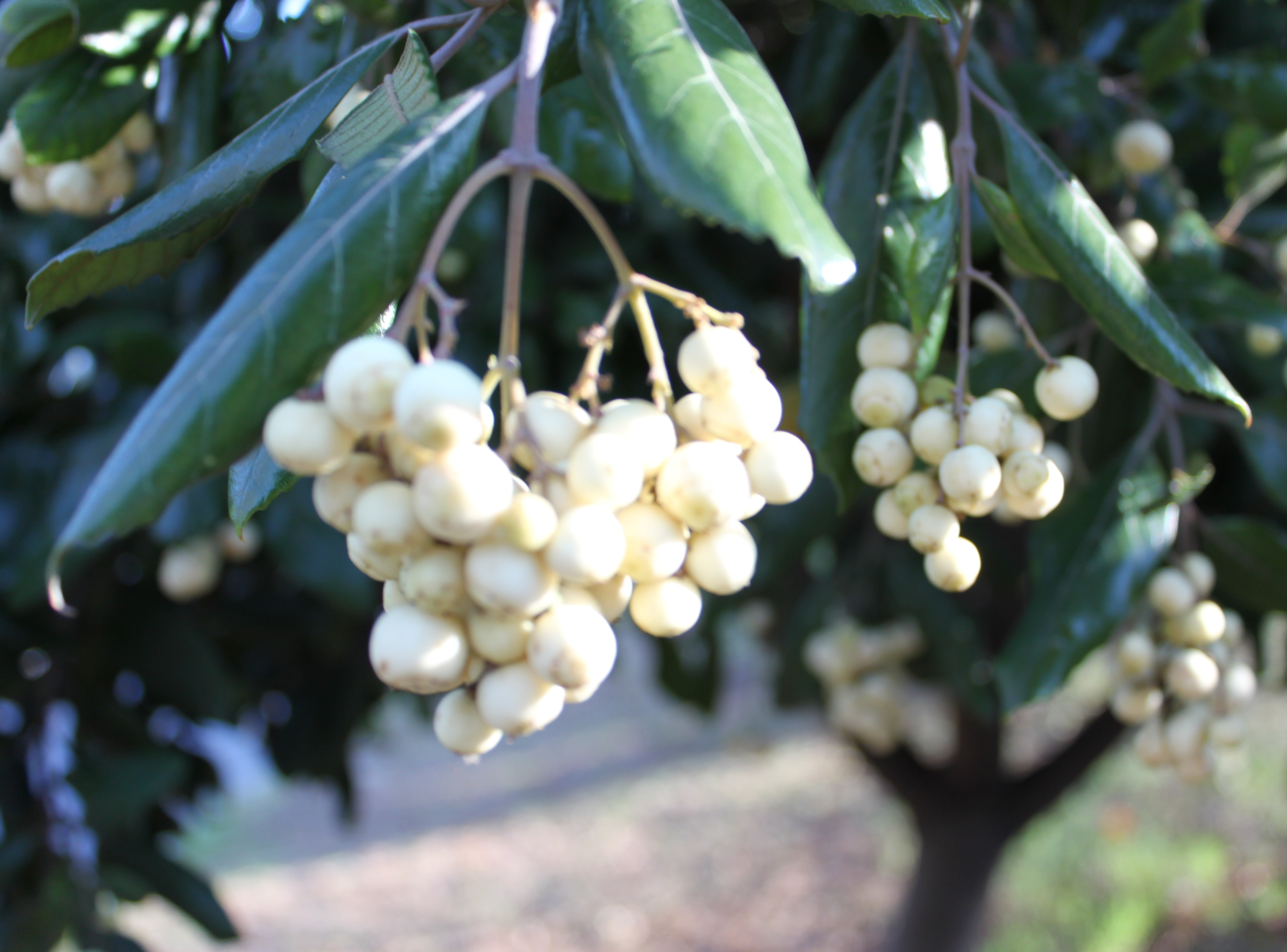 Curtisia dentata. Assegai tree. Cape Town. Fruits and foliage.